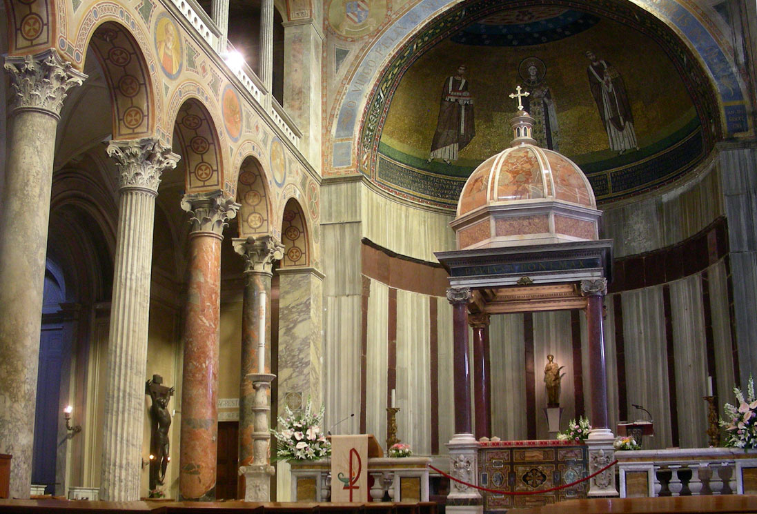 Church of Sant'Agnese fuori le mura, on via Nomentana, in Rome, inside view